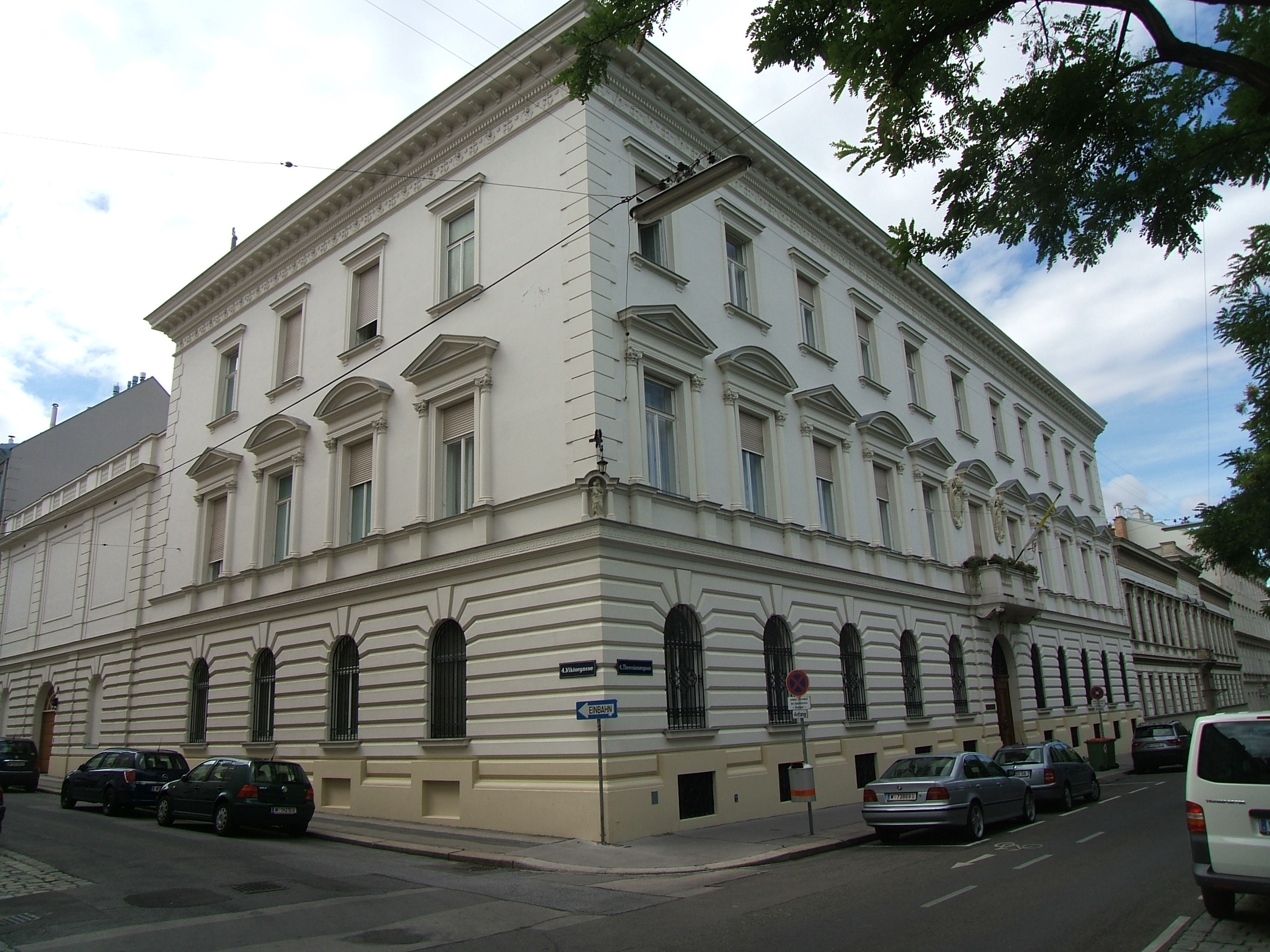 Palais of the apostolic administration in Vienna 4th district, Theresianumgasse 31